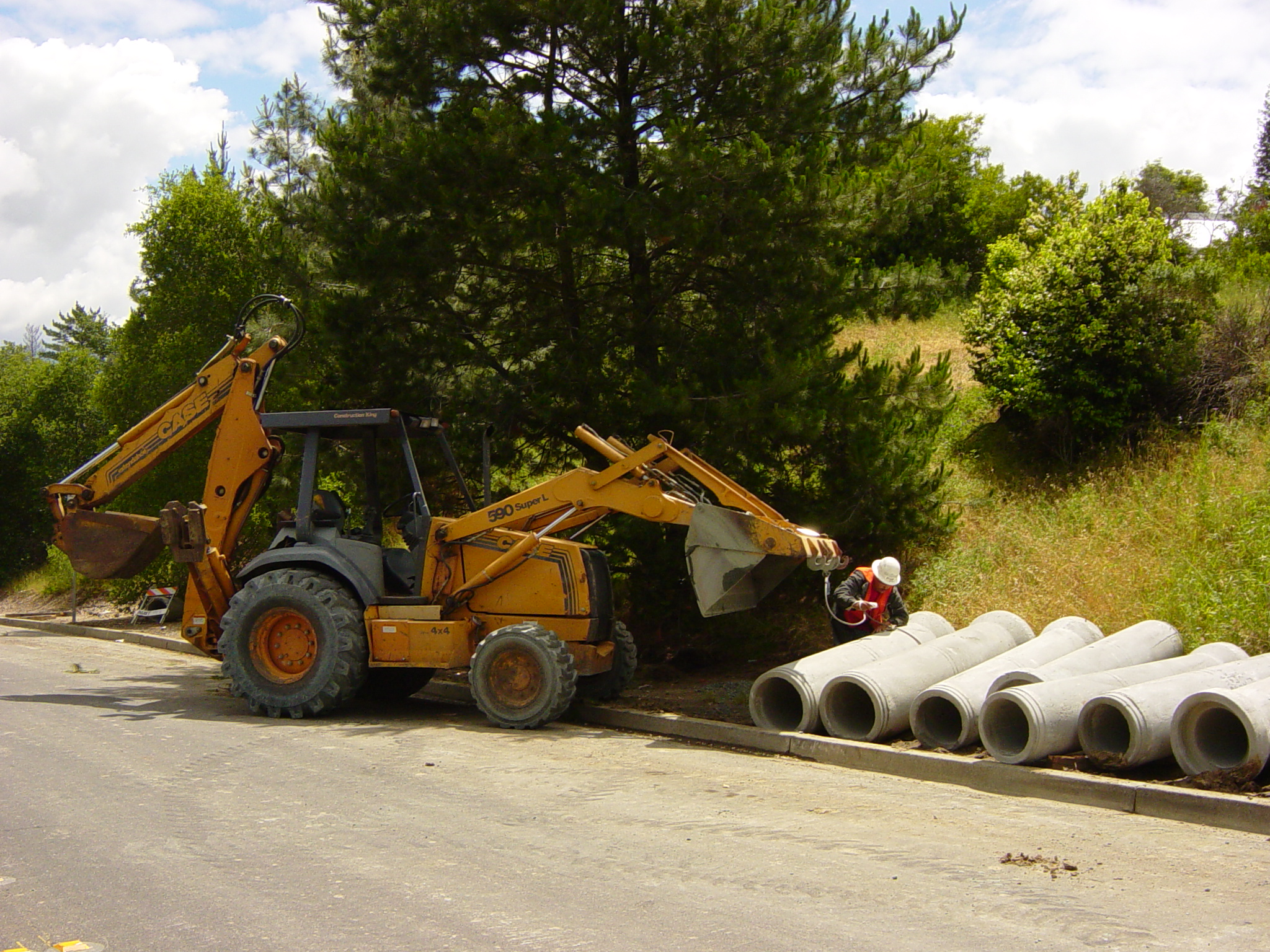 The worker is attaching a concrete pipe sections to Case excavator-loader's bucket for transport to the excavated ditch